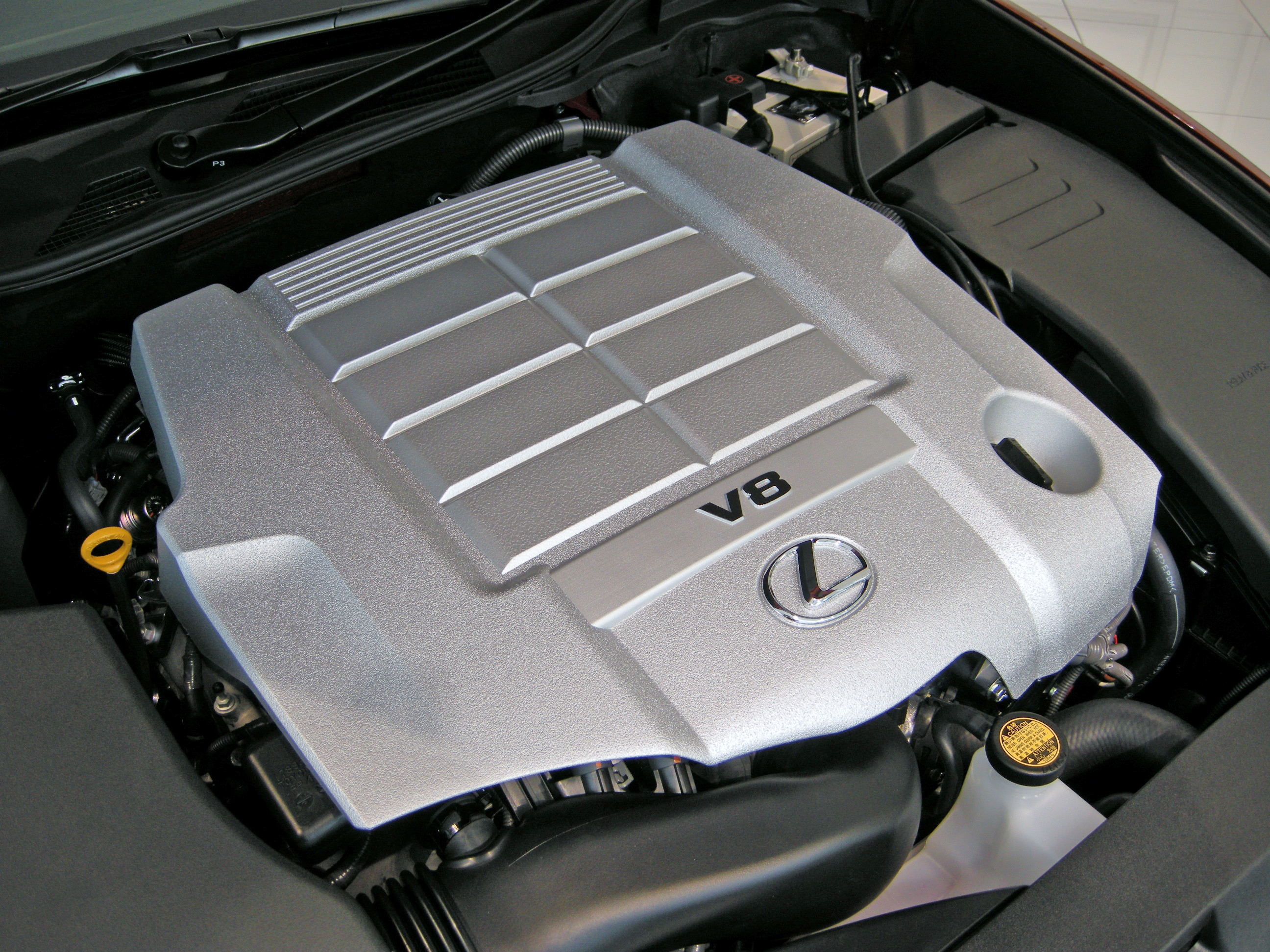 Toyota 1UR-FSE 4.6L V8 DOHC Dual VVT-i Engine installed in Lexus GS460